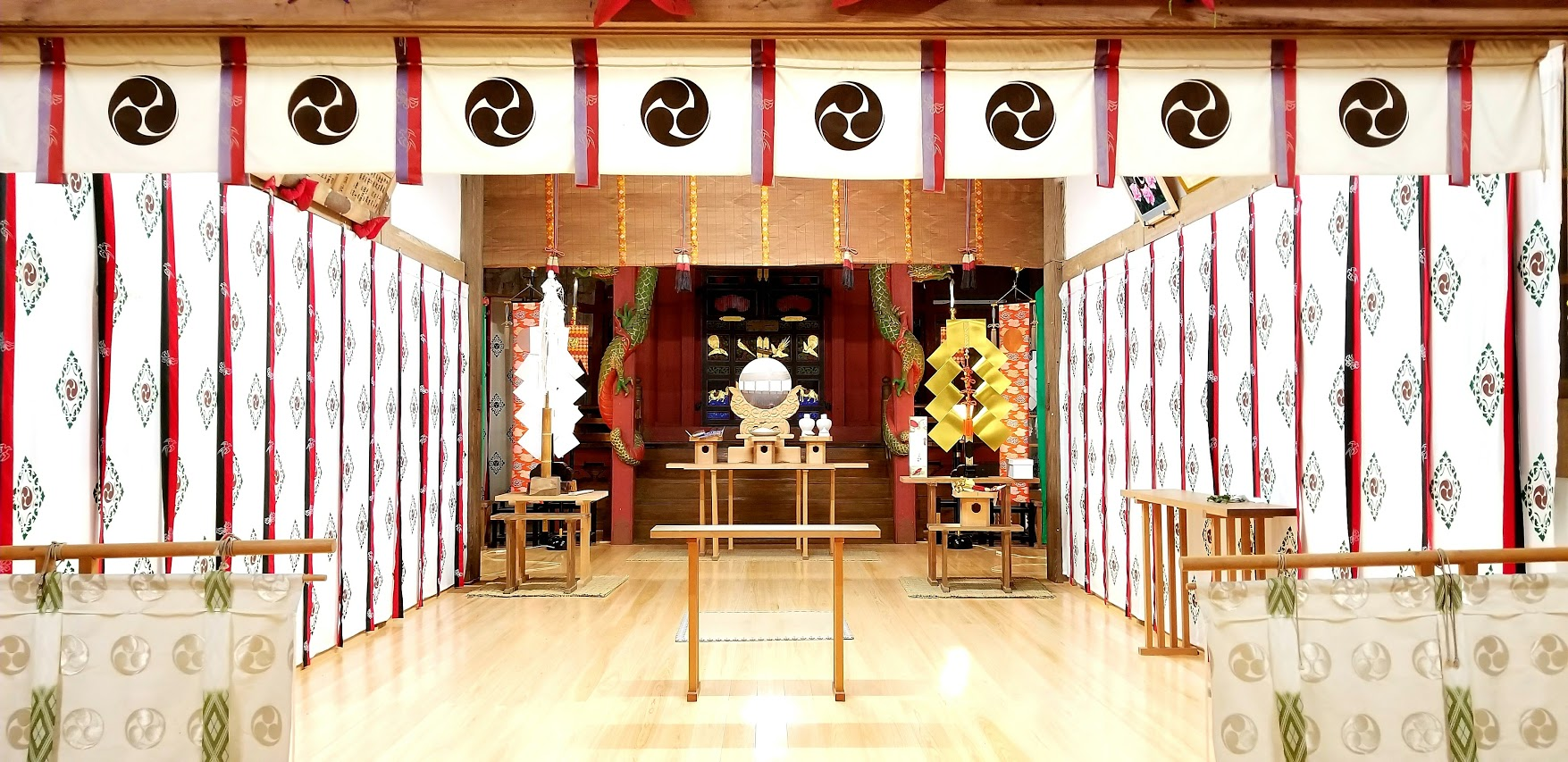 Haiden (worship hall) of the Hiyoshi Shrine in Togane City, Chiba Prefecture, Japan